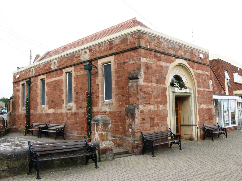 The library at Watchet, Somerset, England. This building was originally used as a lifeboat station.